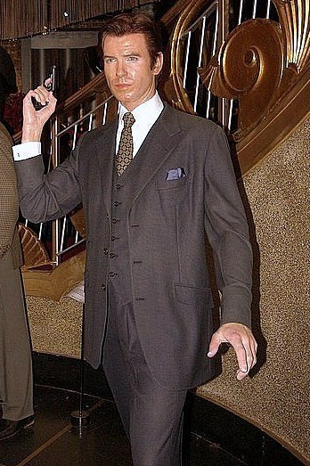 Pierce Brosnan. Madame Tussauds, London.